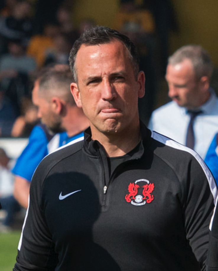 Neale Fenn at Cambridge United